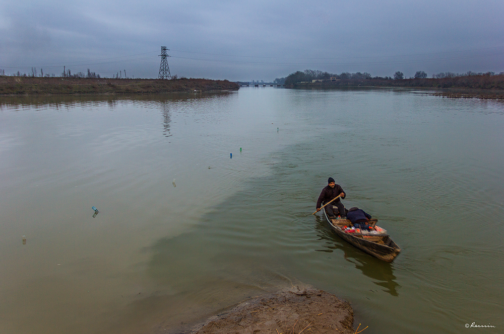 Local people called this place 'Suqovuşan' or 'Qovşaq' that means confluence. River Aras (on the right) flows into the Kura, a river with silty water. Some time the river’s waters run side by side without mixing. This phenomenon is due to the differences in temperature, speed and water density of the two rivers.